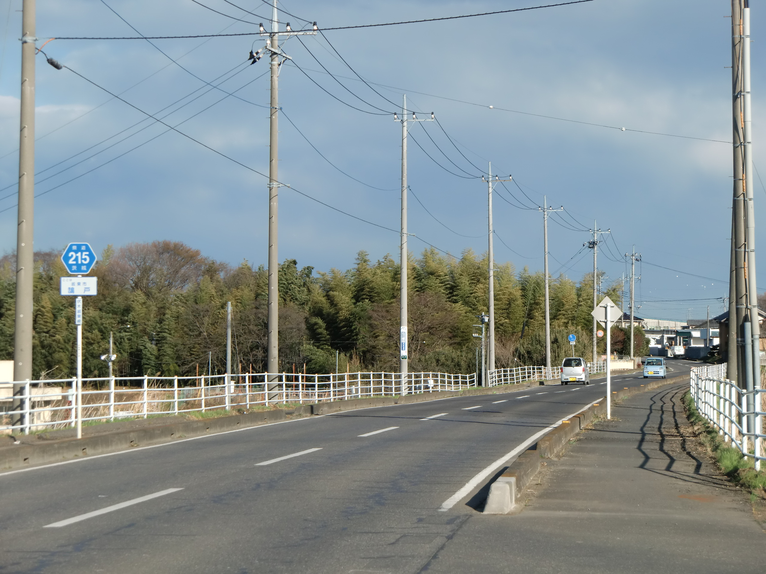 Ibaraki prefectual road 215(Fusegi-Bando line) in Kuguido, Bando, Ibaraki, Japan.